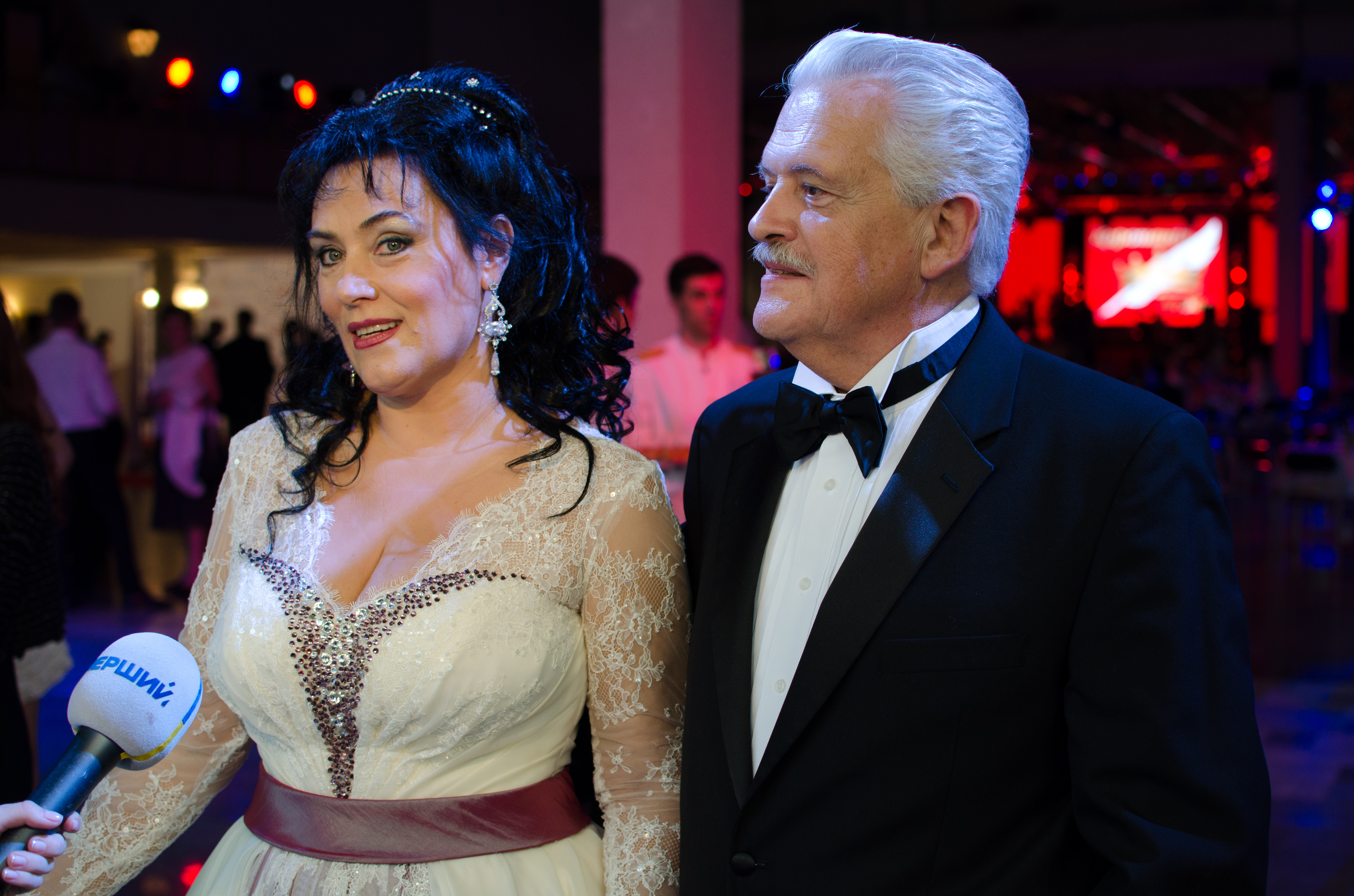 Koronatsiya Slova 2013 literature awards ceremony, Kiev, Ukraine